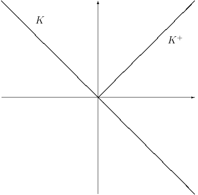 Sample solvency cone in 2 dimensions with no transaction costs and 1 to 1 exchange.